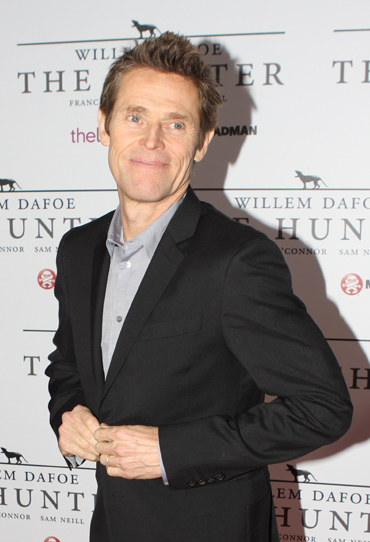 Willem Dafoe at the Sydney film premiere of The Hunter.